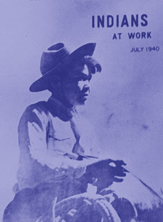 A typical cover of "Indians at Work", a print magazine produced by two cooperating US Department of the Interior sub-agencies: the US Indian Service and also the Office of Indian Affairs (the latter, now called the Bureau of Indian Affairs). "Indians at Work" attempted to highlight some of the more positive aspects of reservation life while also providing, WPA style, gainful employment for a team of government photographers including Gordon Sommers who later provided photos for the Los Angeles Times. Other well-known New Deal era government photographers, mostly working under authority of the Department of Agriculture, of the Department of the Interior, or of the Works Progress Administration included Ansel Adams, Walker Evans, Minor White, Gordon Parks, Ben Shahn, Dorothea Lange, and Arthur Rothstein. This July 1940 cover image shows a close-up of a young male Navajo horse-rider with a lasso and lariat coil of ranch-rope at the ready.